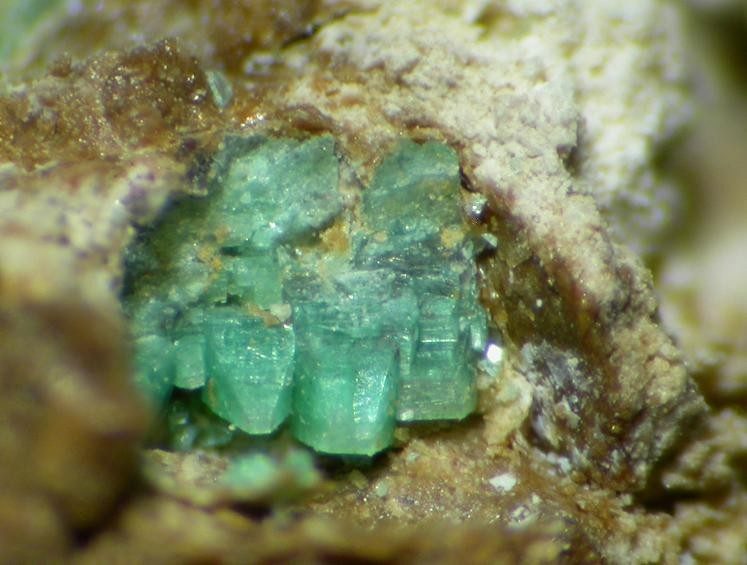 Zeunerite Locality: Adam Heber Mine (Shaft 43), Neustädtel, Schneeberg District, Erzgebirge, Saxony, Germany Field of view 4 mm. Specimen and photo Leon Hupperichs.